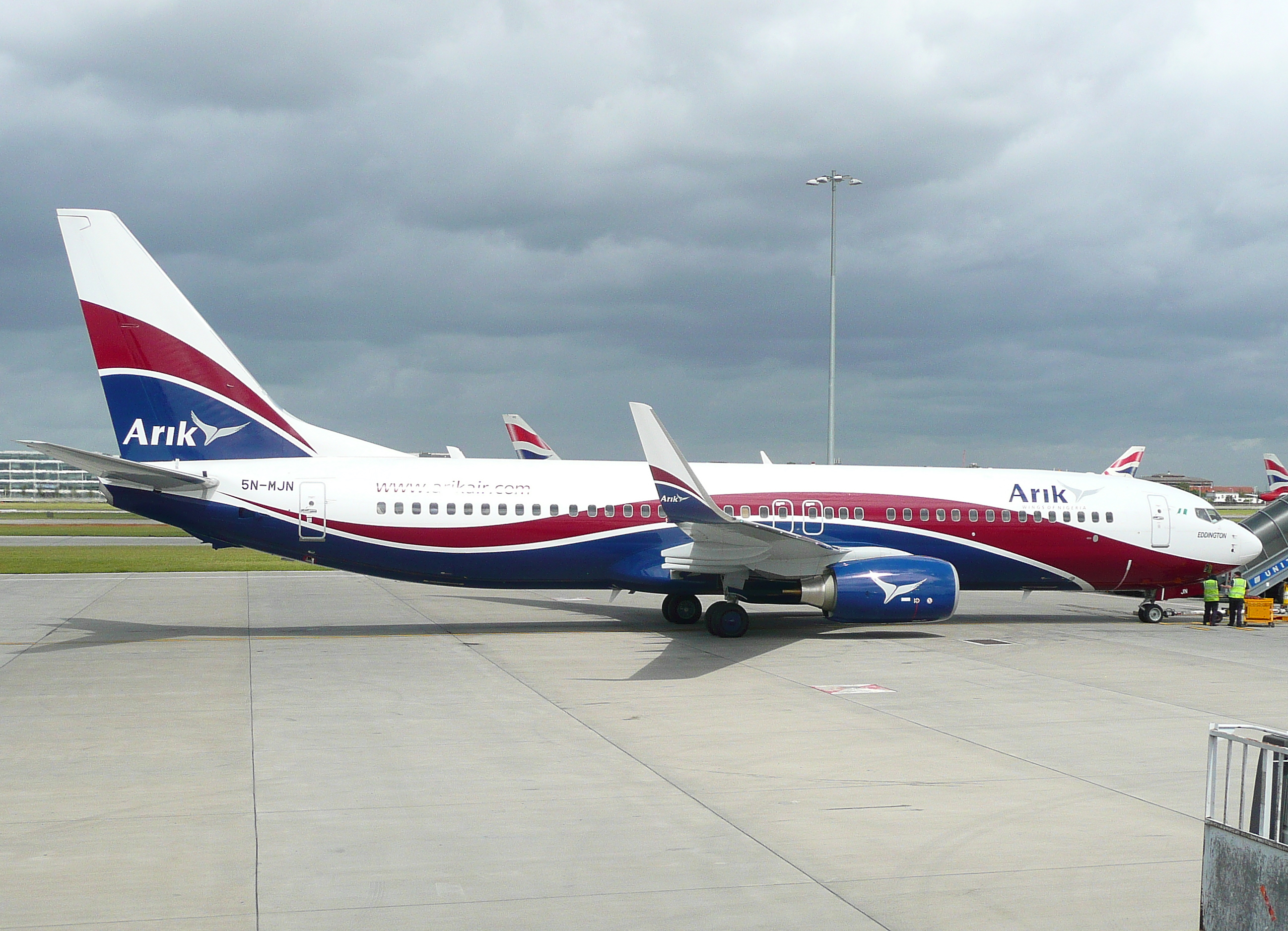 5N-MJN B738 Arik Airways on std 258 during it's first visit.